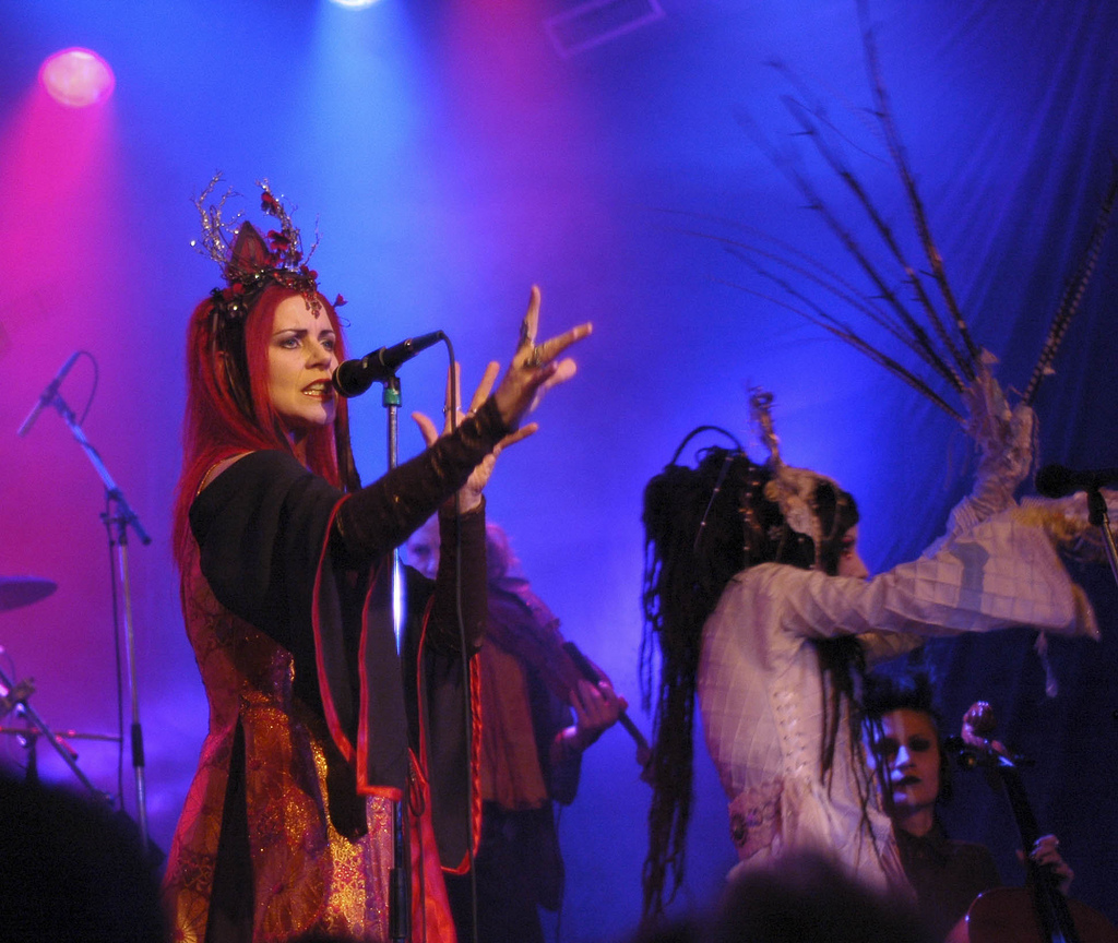 The american singer Monica Richards (Faith & the Muse) in concert